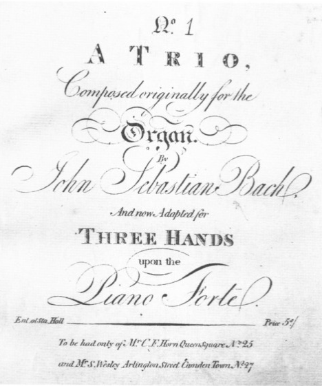 Title page of one of Bach's trio sonatas for organ arranged for piano duet (three hands), with the one player playing the pedal and second manual and the first manual played an octave by the other player.